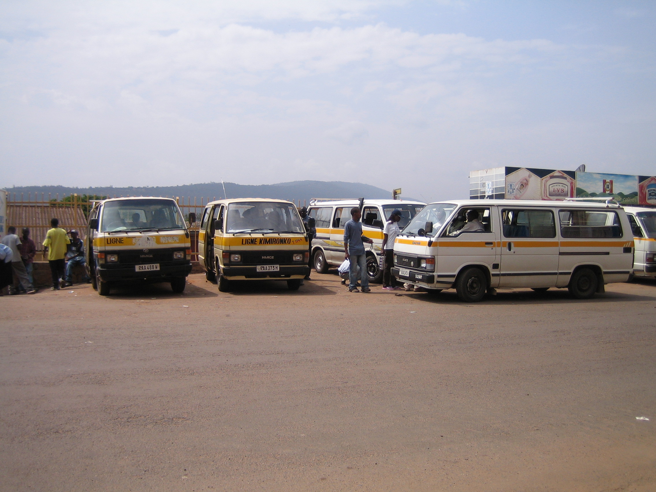 A row of Taxi minibuses waiting to depart in Kigali, Rwanda Taken by SteveRwanda